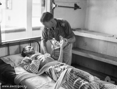 Australian War Memorial caption: "Kuching, Sarawak, Borneo. 1945-09-16. Kuching Civil Hospital, formerly the Japanese military hospital. VX40481 Major A. M. Hutson, 2/4th Australian General Hospital, treats Captain Anderson (British Army), a case of severe emaciation. (Photographer Sgt F. A. C. Burke)"